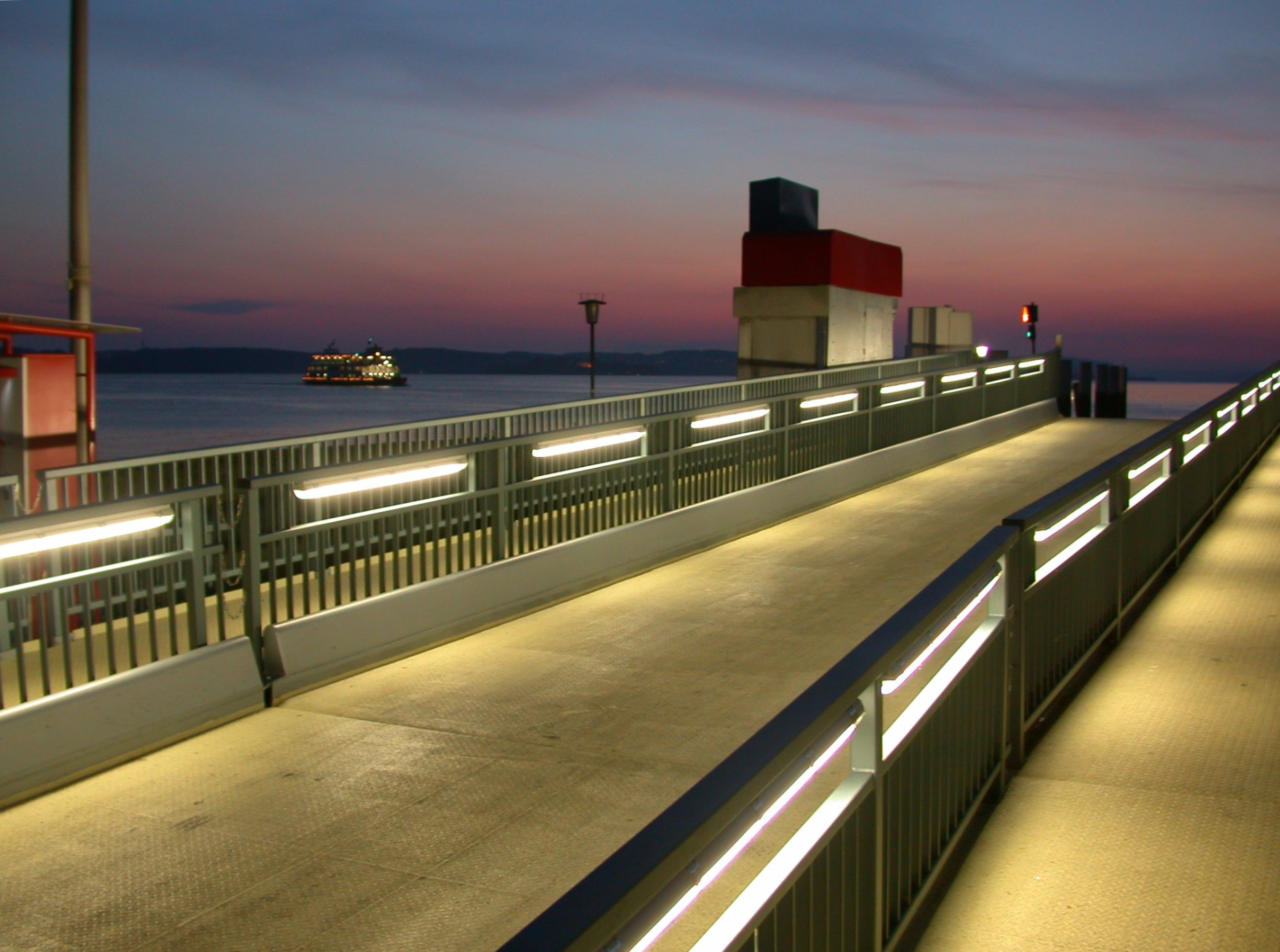 Meersburg, car ferry by night. / Autofähre bei Nacht. Photography by F. Bucher